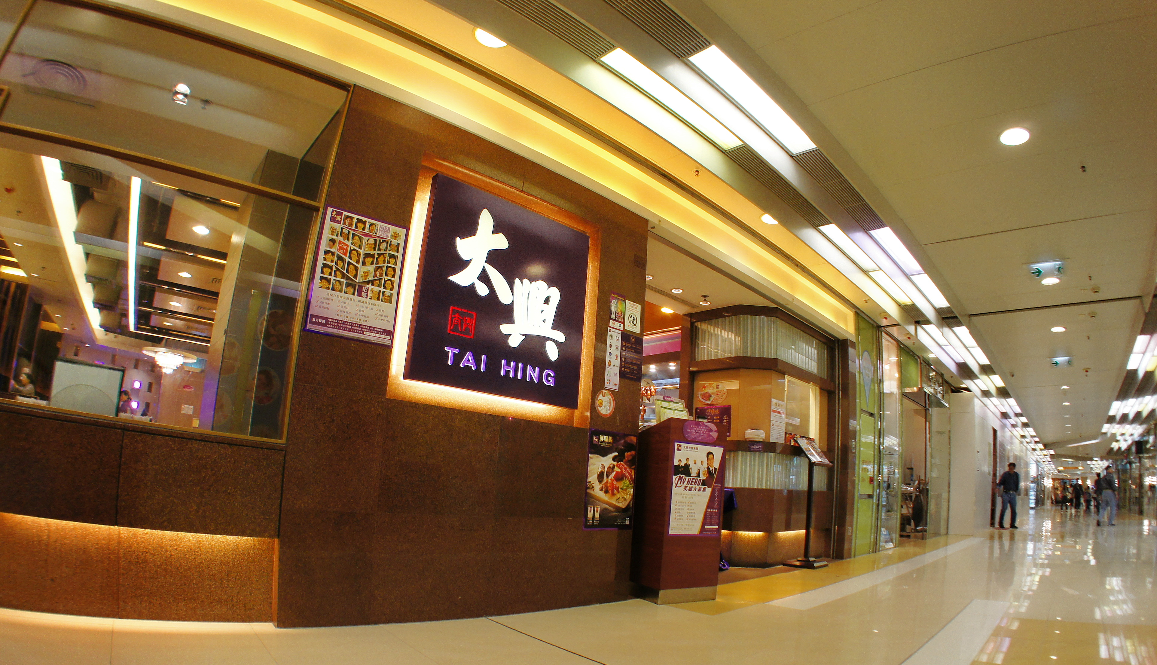 Tai Hing Restaurant, The Pacifica Mall Branch, Hong Kong.